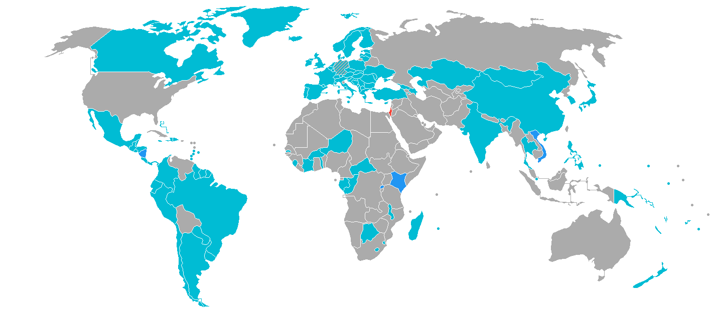 Visa policy of Israel for holders of diplomatic or service category passports Israel Visa free access for diplomatic and service category passports Visa free access for diplomatic passports